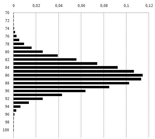 Binomial distribution of probabilities for the number of cognates in the Swadesh List after a millennium, asuming a constant retention probability of p = 0.86 (the same for all words). It can be shown that the averge number is 86 cognates (of 100) but there is a significative probability to obtain a slightly greater or lower figure.